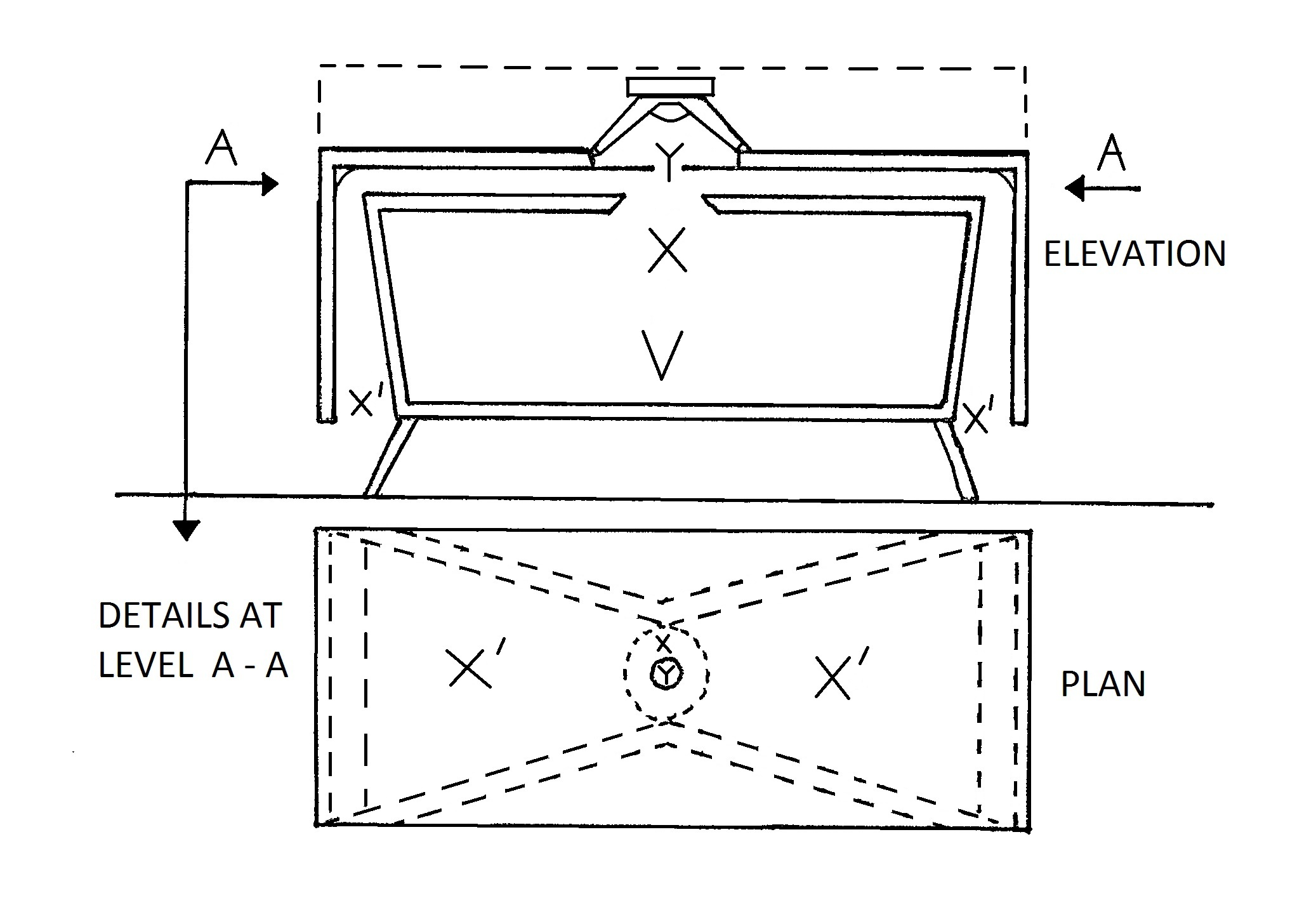 A simple schematic of the Graham Holliman infrasonic bass frequency generator.